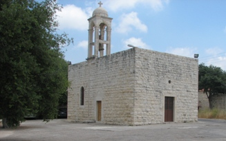 A Picture of the church of Hbaline "Notre Dame de la délivrance".